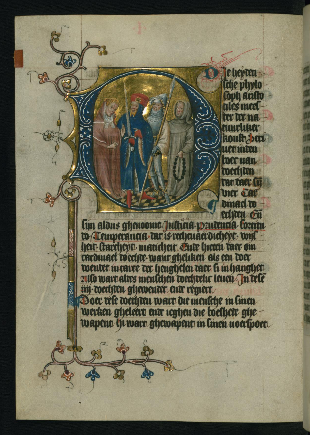 This folio from Walters manuscript W.171 depicts the four cardinal virtues: Justice, Prudence, Fortitude, Temperance.